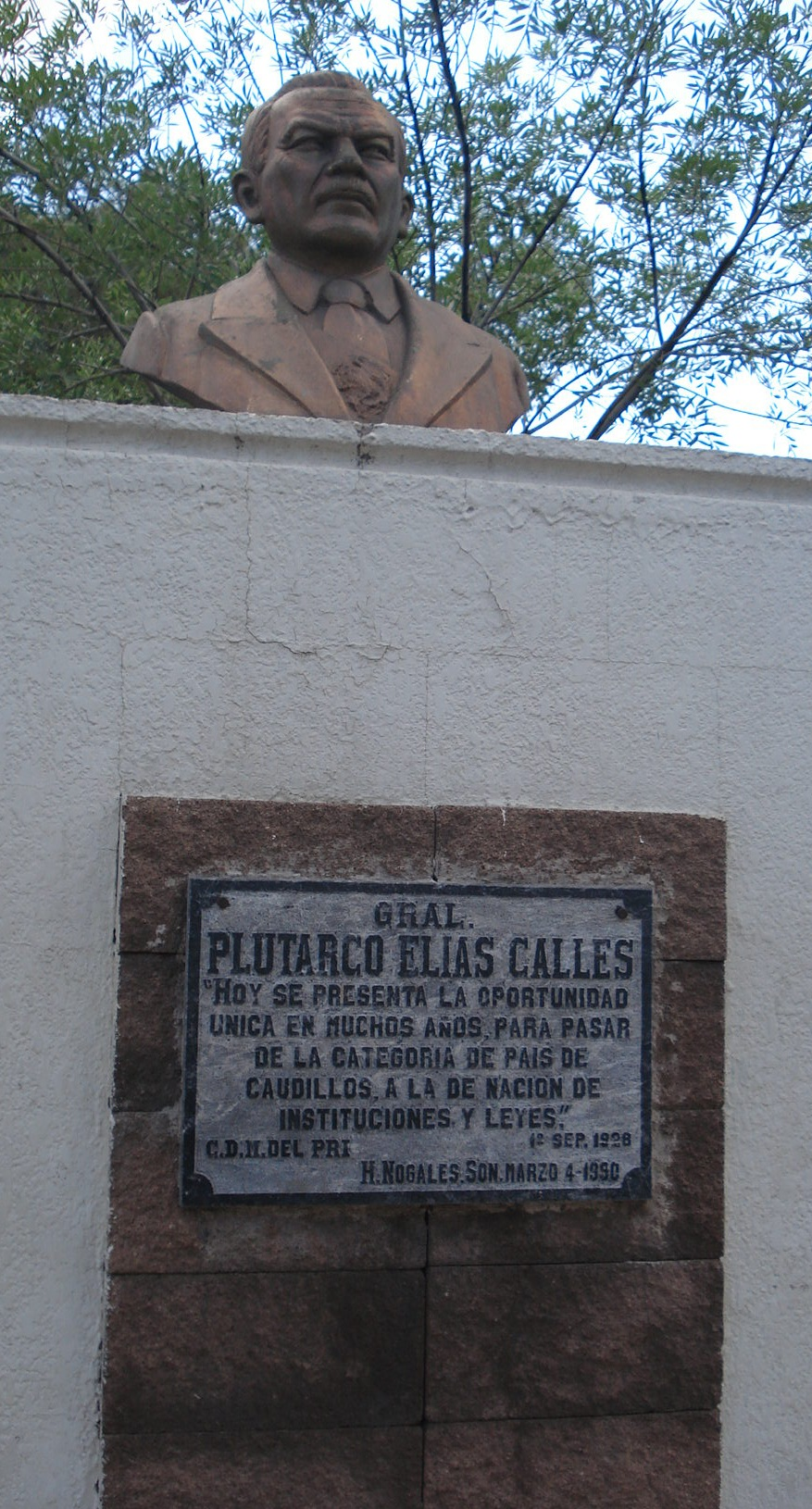 A monument dedicated to Gen. Plutarco Elias Calles, President of Mexico 1924-1928 and a negotiator of peace between the U.S. and Mexico in Nogales in August of 1918.